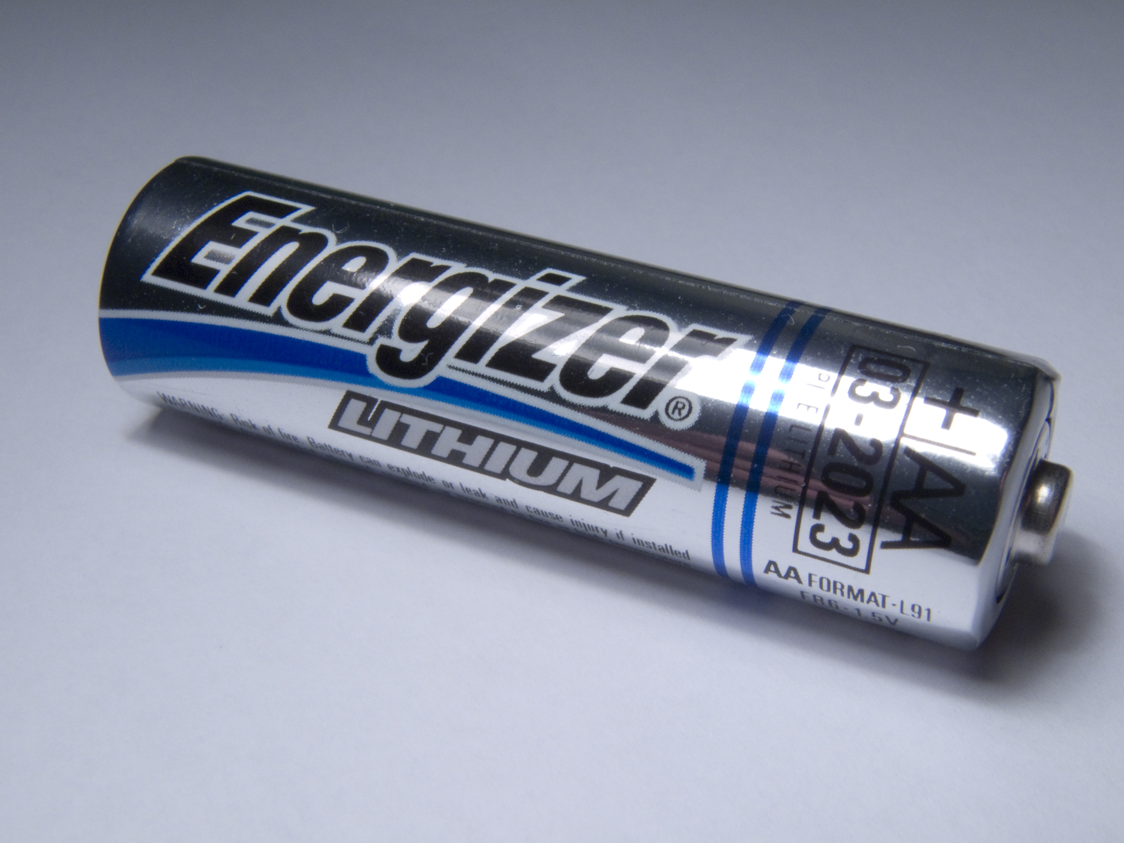 Energizer lithium AA cell.